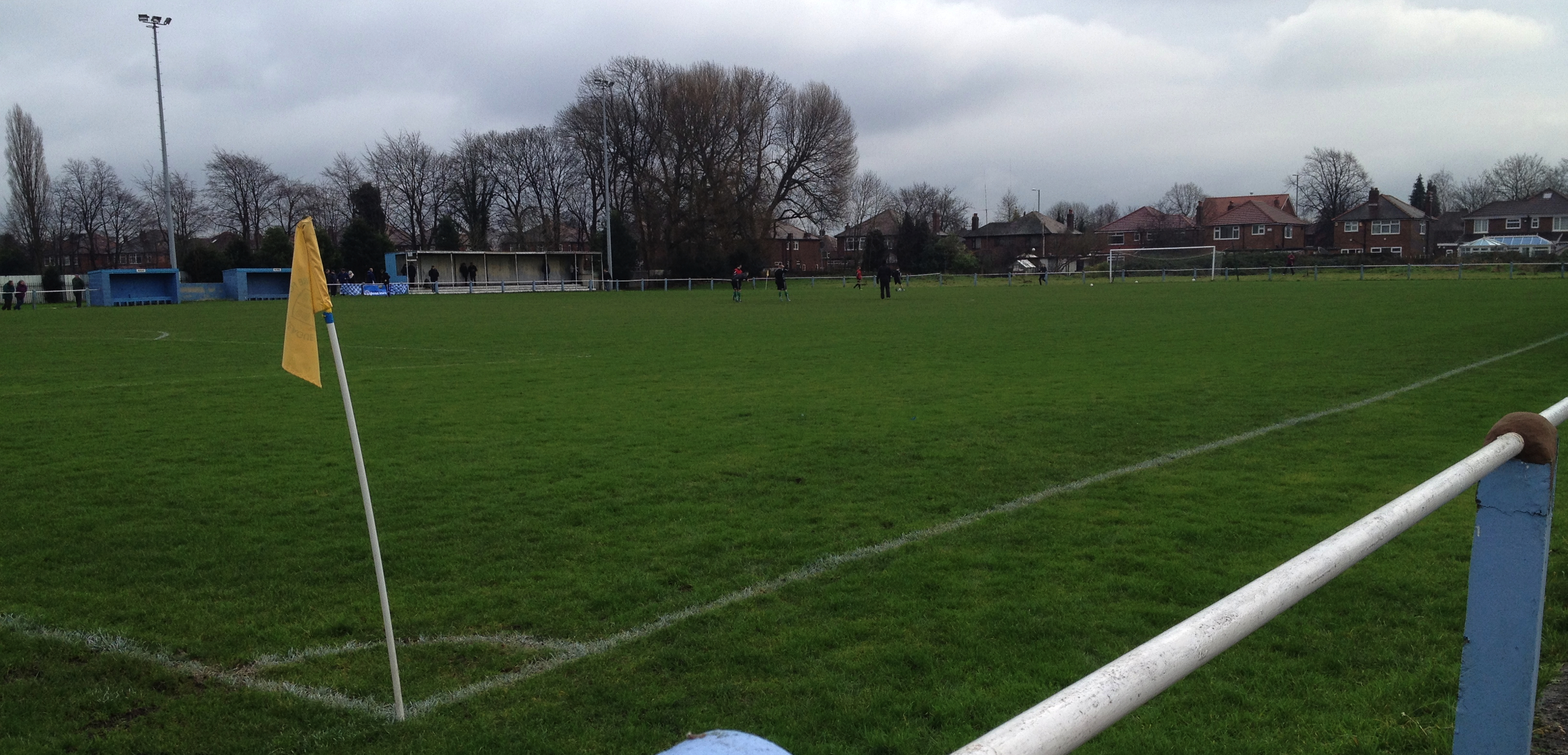 Brantingham Road football ground in Chorlton, Manchester. Home of Maine Road F.C.